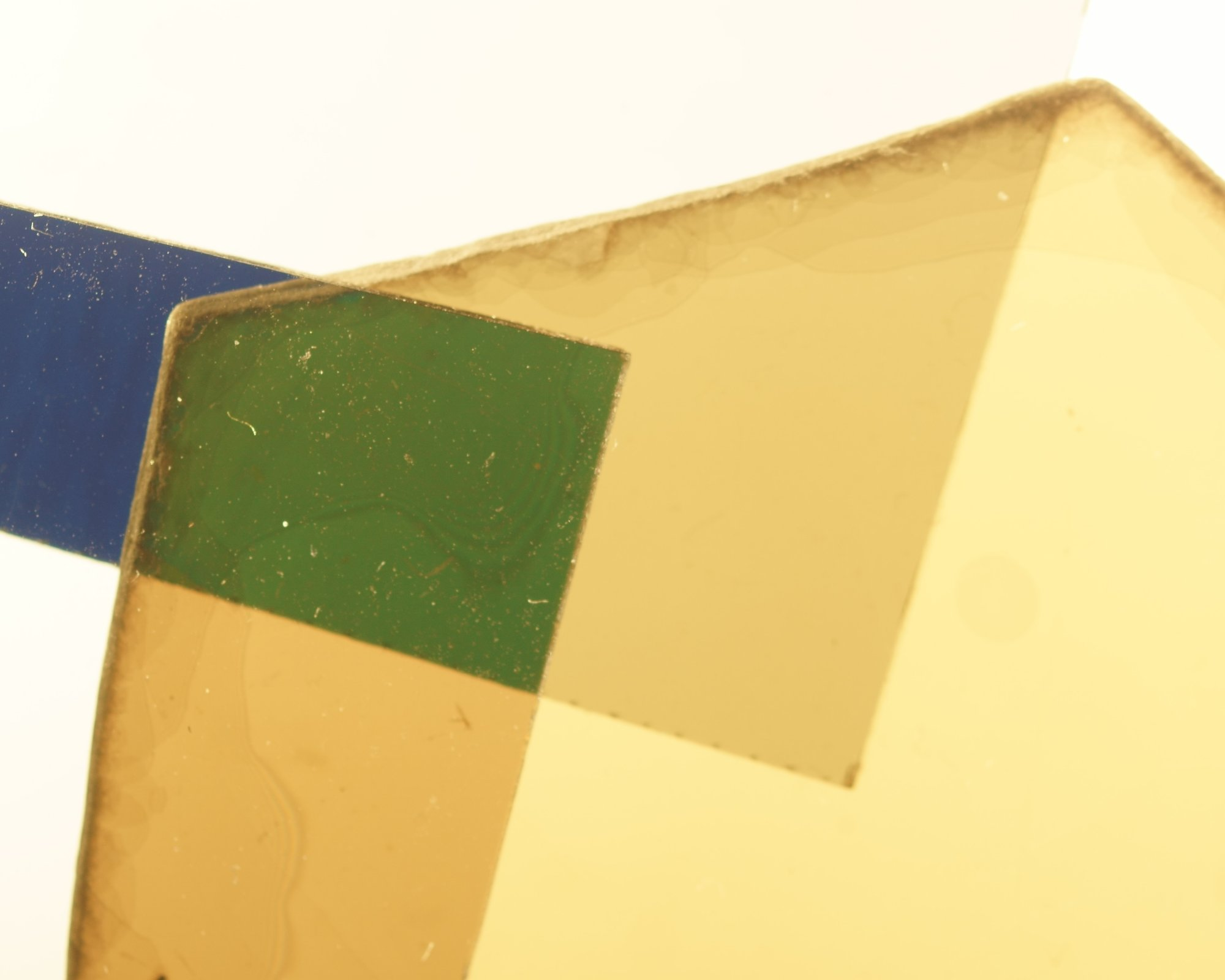 Light brown mica between two partly overlapping polariser (almost perpendicular, 86.5°) Mica of unknown composition and locality. Image width=3.5 cm Thickness 0.3 mm Viewed in direction [001] in incandescent light The compilation illustrates pleochroism (although very weak) as well as interference colour (green) when polarizing filters are used. The background is seen in the upper right corner and the colour of the mica in the lower right corner. The upper and the lower left corner show the background as seen through each of the polarizers. In the middle left is shown how the filters block the light, however not completely and as a result a dark blue colour is seen. The field to the right of the green field has a slightly lighter colour than the field below. In this composition the shown colour change is smaller than the possible change in mica species.